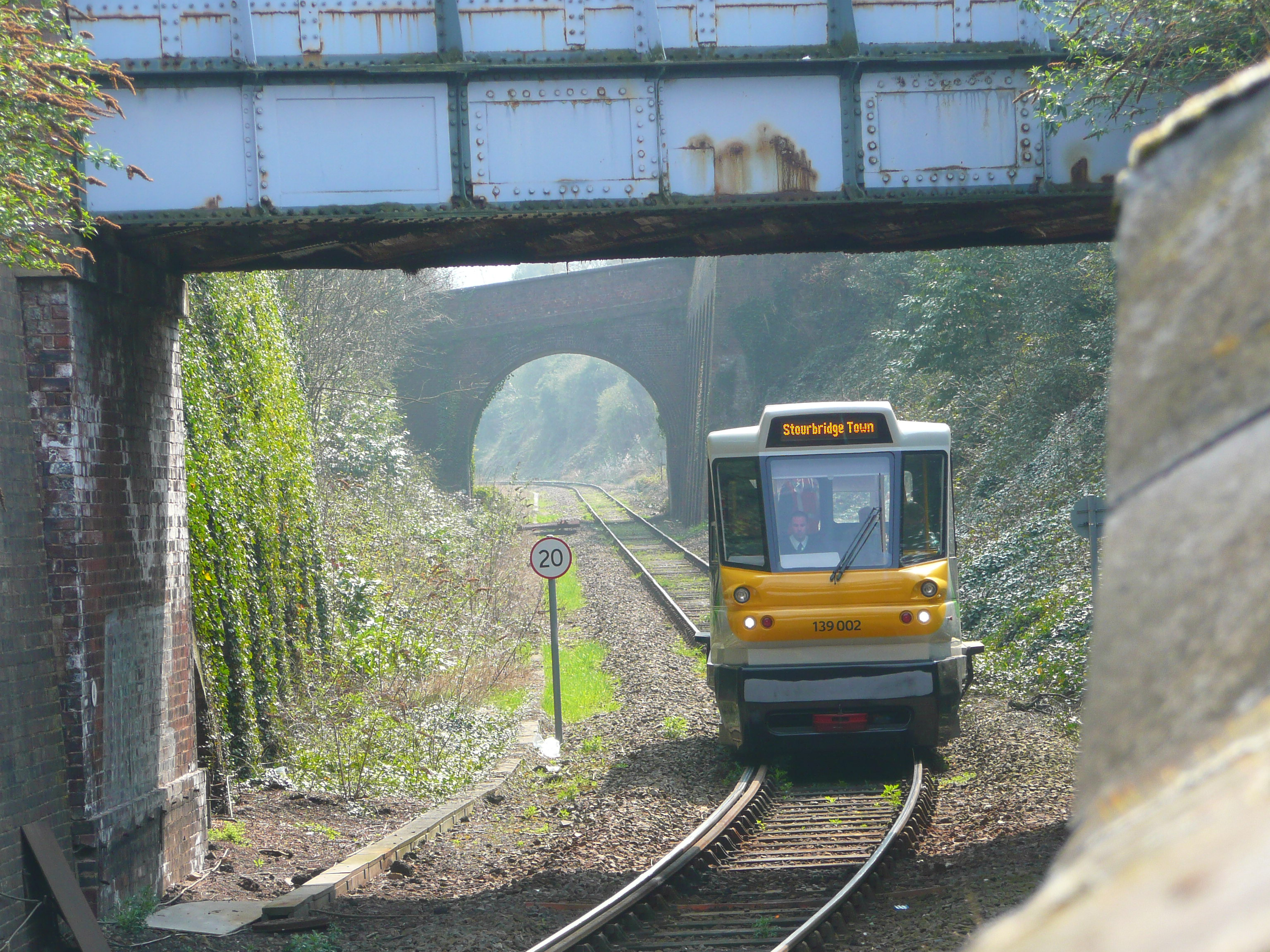 PPM60 139002 Approaching Stourbridge Town station.